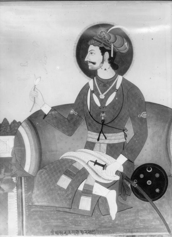 Bhaskara Malla, king of Kathmandu from 1700–1714